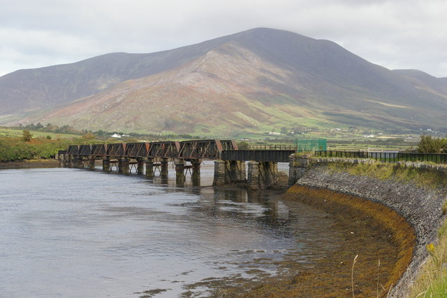 Cahersiveen Railway Viaduct Still standing since closure in 1963. The line from Farranfore via Cahersiveen to Reenard was the most westerly railway in Europe (although some say the Dingle line was a little further west).